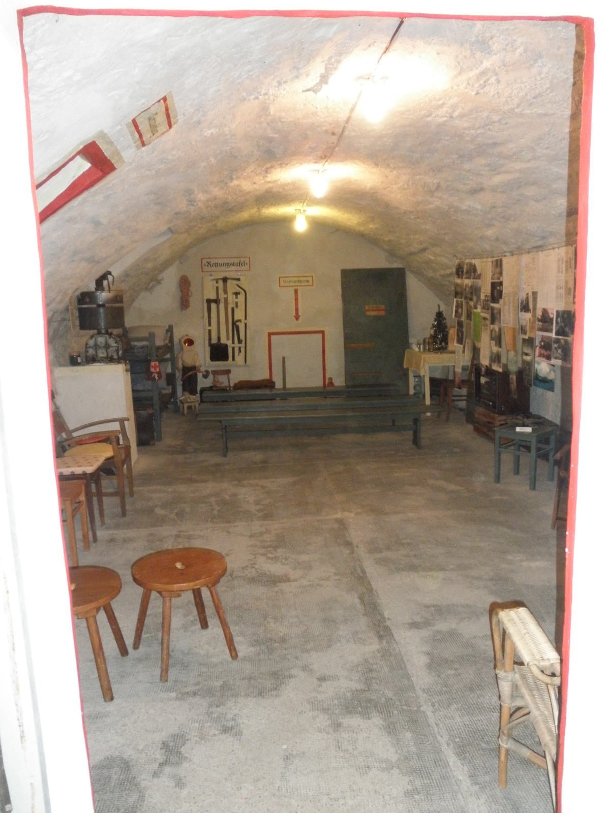 Air Defence Museum in Erfurt